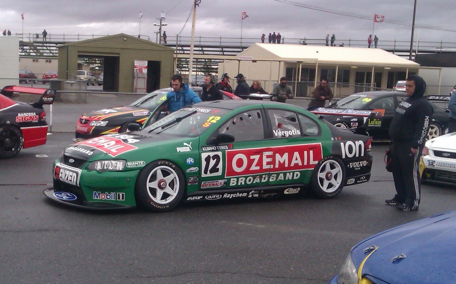 The Ford BA Falcon of John Vergotis at Mallala Motor Sport Park on 21 April 2013. The car was competing in the Round 2 of the 2013 Kumho Tyres V8 Touring Car Series